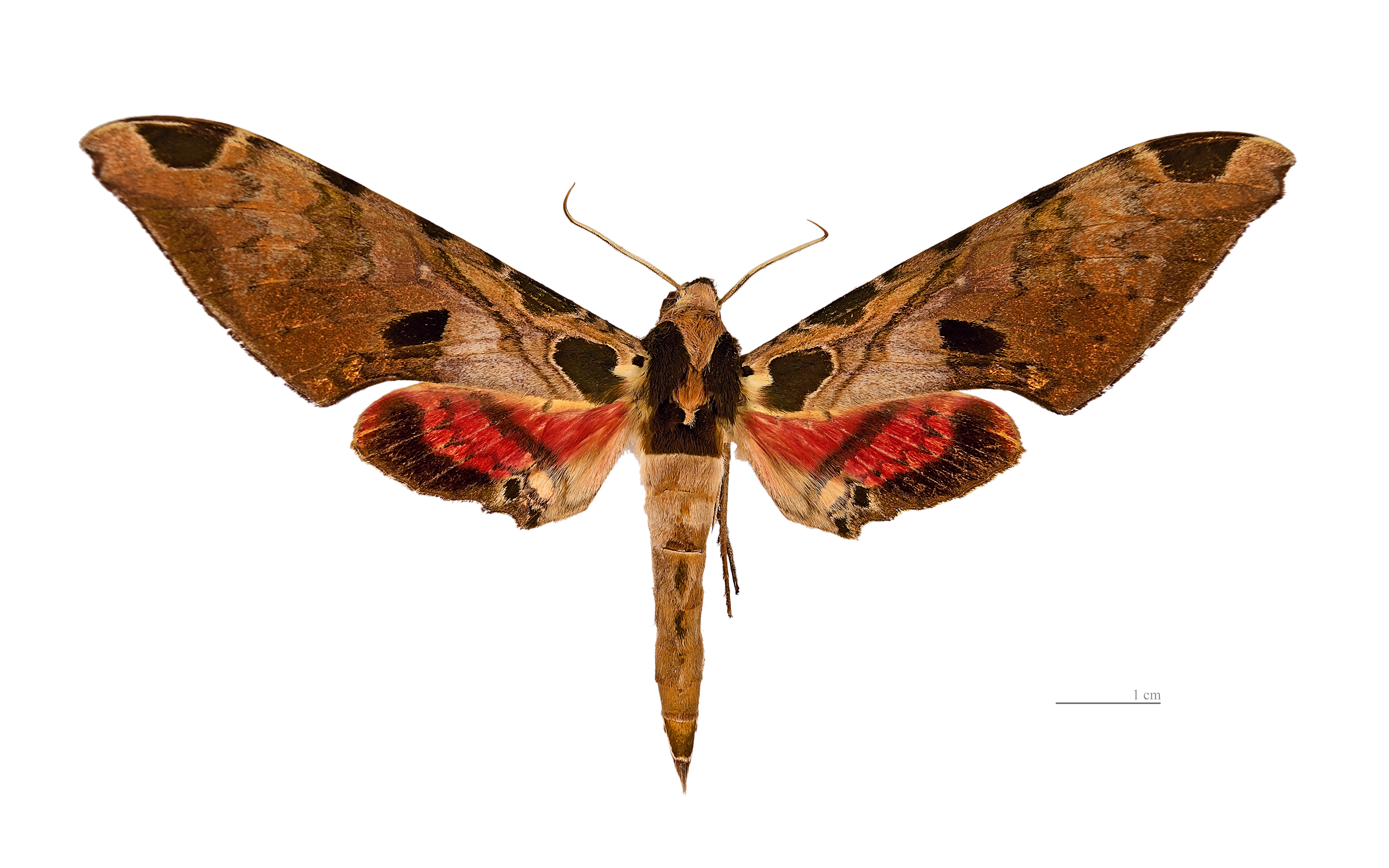 Adhemarius palmeri - Dorsal side